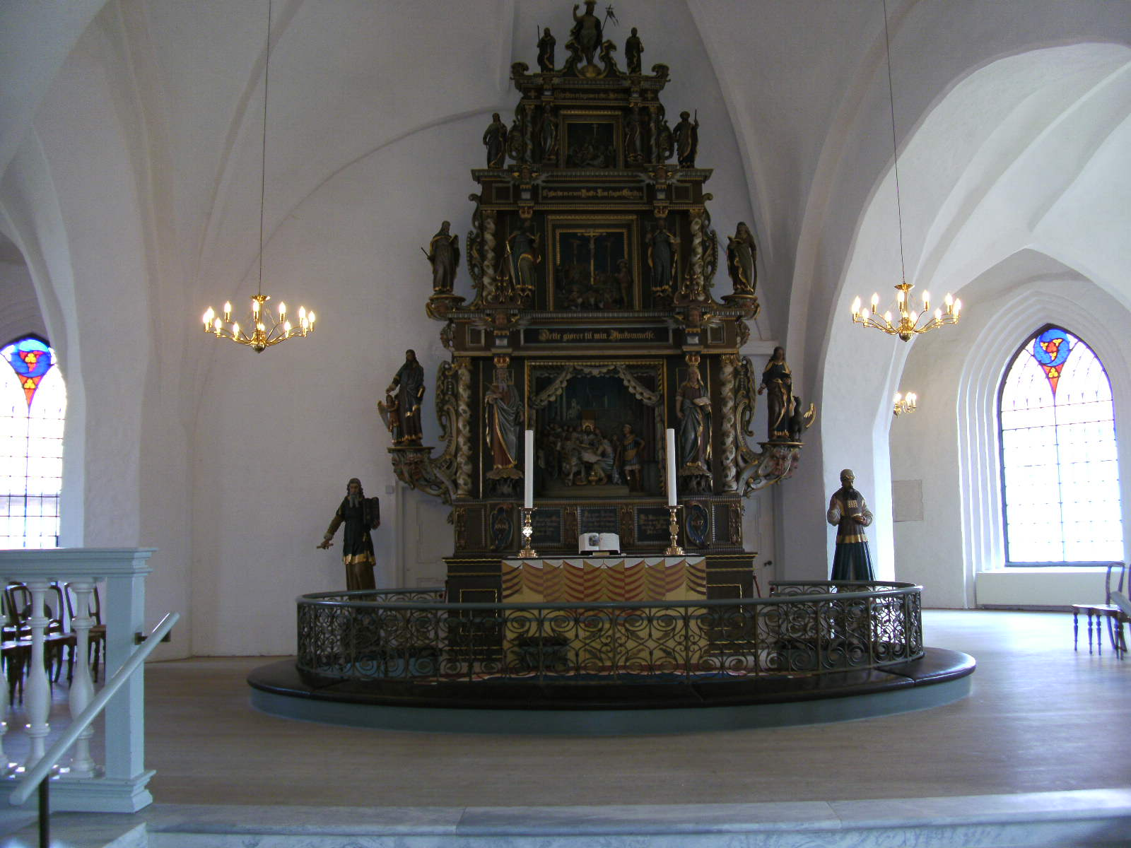 Alter in Sankt_Nikolai Church in Nakskov, Community of Guldborgsund, diocese of Lolland-Falster. Date: 2010.08.16 Author: Sir48